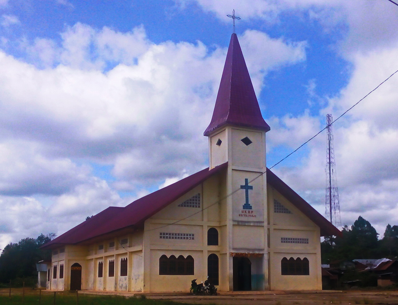 HKBP Hutajulu, Church in Hutajulu, Pollung, Humbang Hasundutan